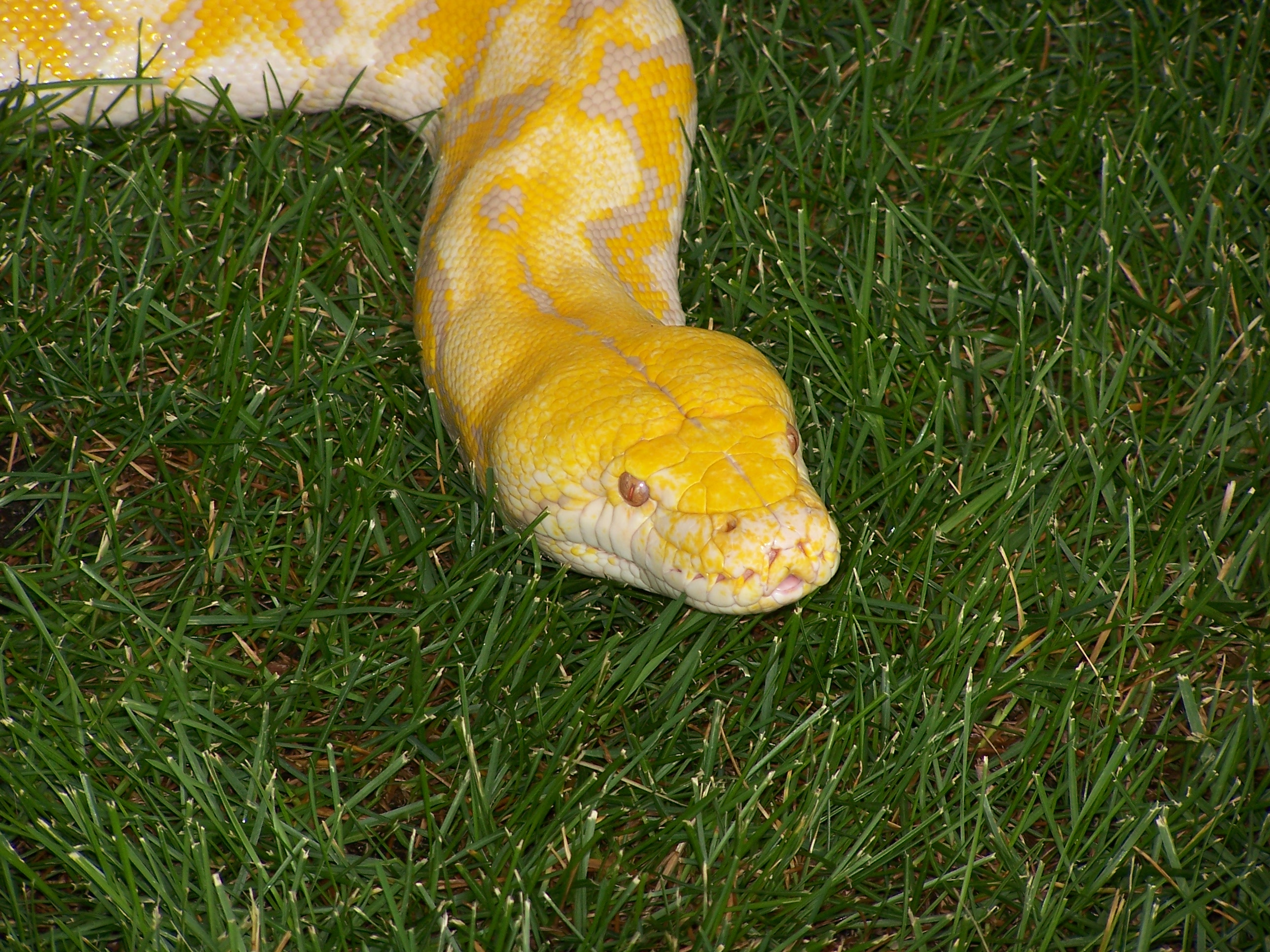 Head of an albino reticulated python.